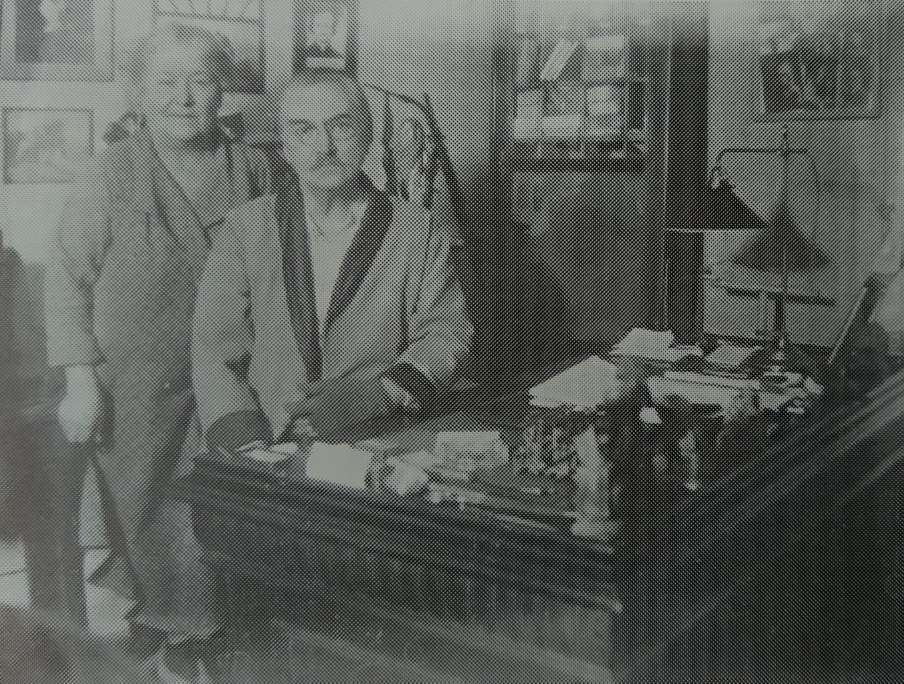 Stevan Bešević, Serbian journalist and lawyer, with his wife Olga Српски (ћирилица): Стеван Бешевић, новинар и адвокат, са својом суругом Ологом.